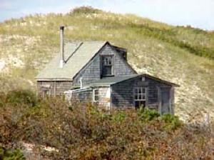 Image of dune shacks located in the Peaked Hill Bars Historic District within the Cape Cod National Seashore